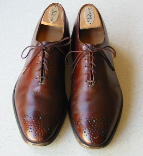 Pair of plain toe oxfords from Allen Edmonds shoe company